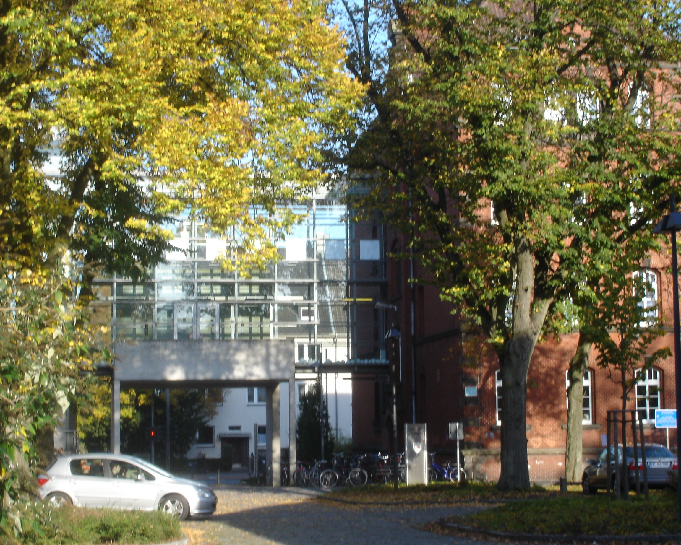 Leonardo-Campus in Muenster (Westphalia), Germany (Architectures-building)